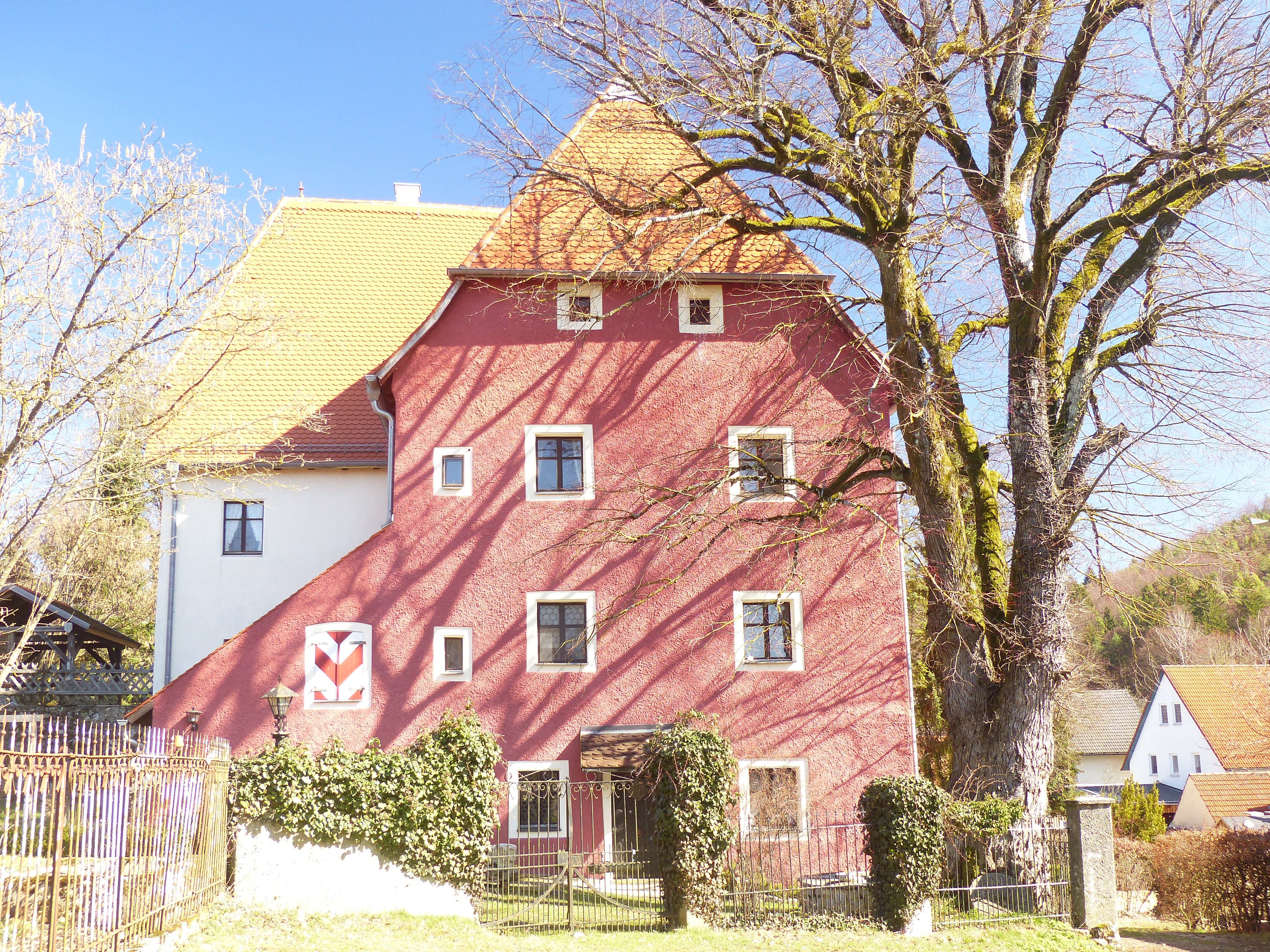 The former château Kirchenreinbach. Situated in the village Kirchenreinbach, a district of the municipality Etzelwang